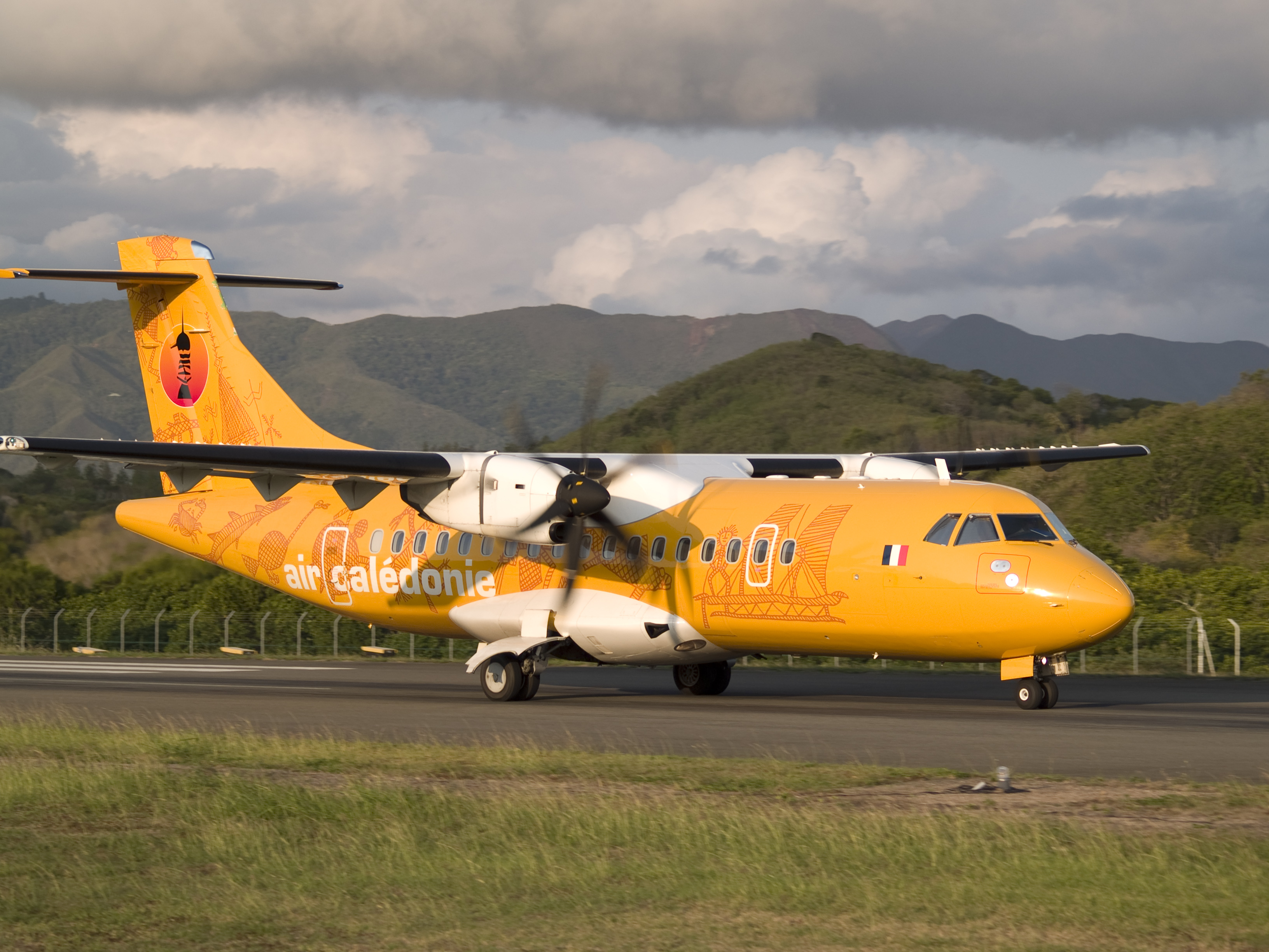 Air Calédonie ATR 42-500 F-OIPI at Nouméa Magenta Airport